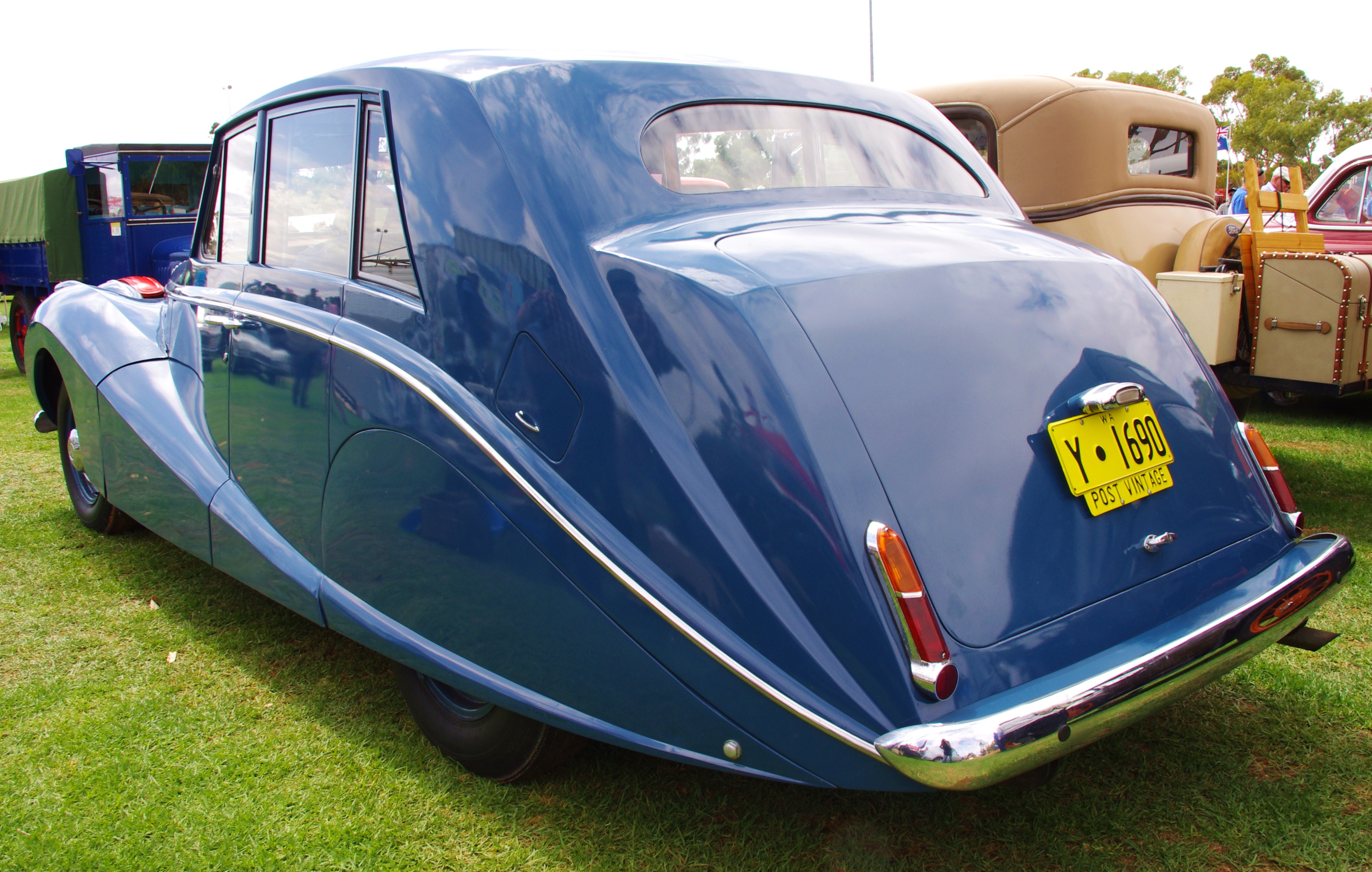 1953 Daimler Regency Empress body by Hooper Brookton W A Australia